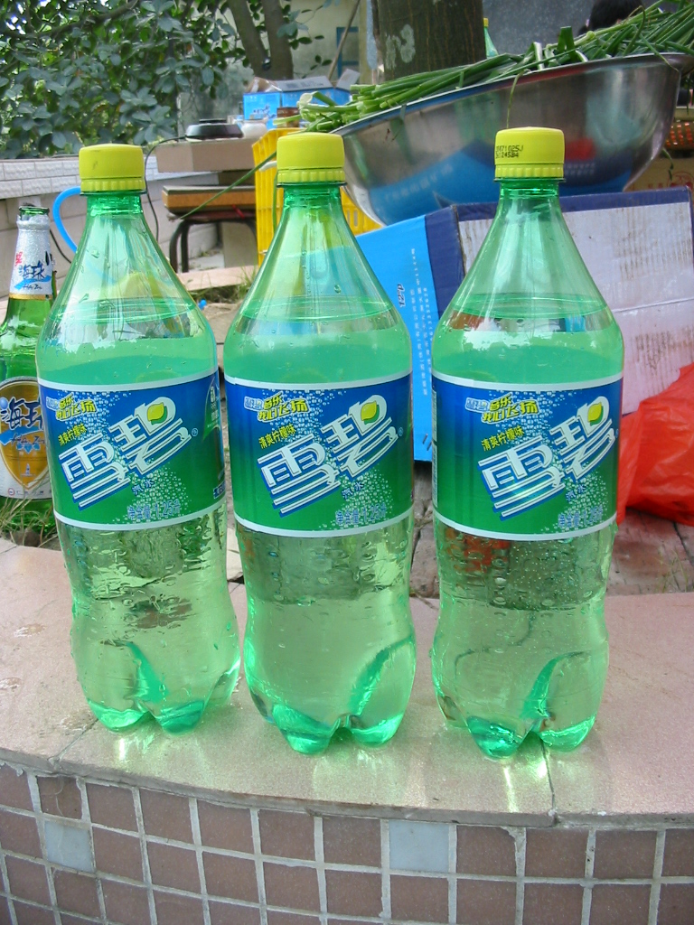 1.25 litre bottles of "Sprite" drink in China.